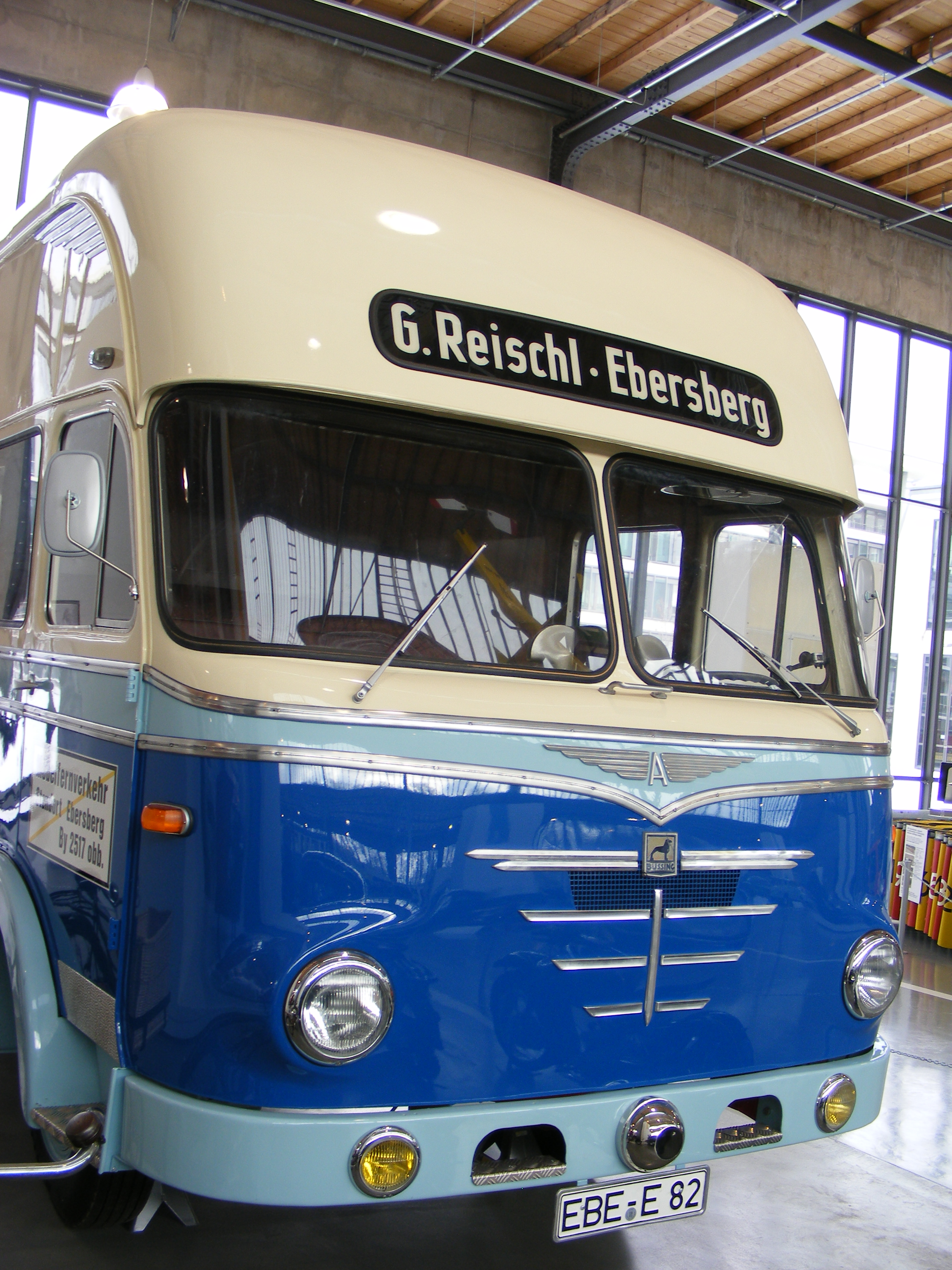 Büssing furniture van with underfloor engine, Ackermann-building, - exhibit at the Deutsches Museum in Munich, communications center, inventory 2006-23, on loan from Georg Reischl, Ebersberg - no model name called.